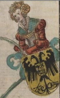 Margaret of Sicily